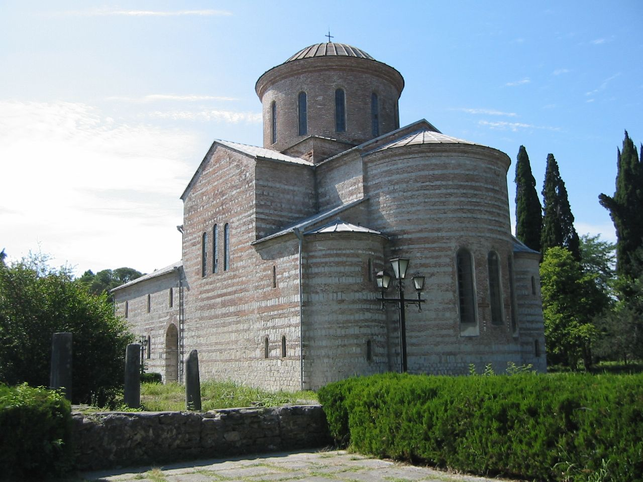 Abkhazia, Georgia — Bichvinta Cathedral